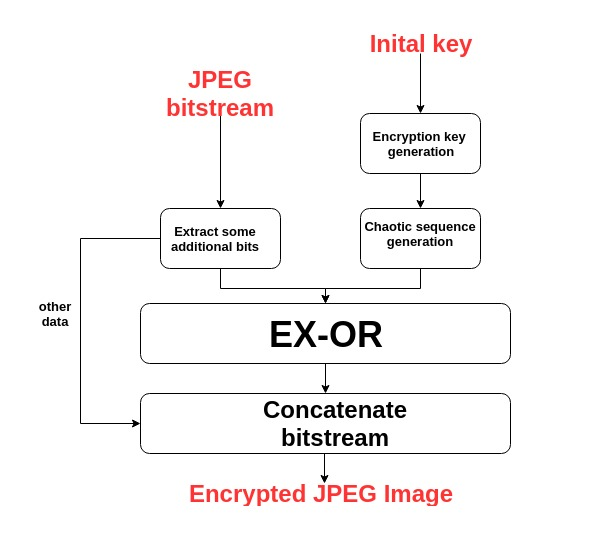 The example of encryption image scheme.